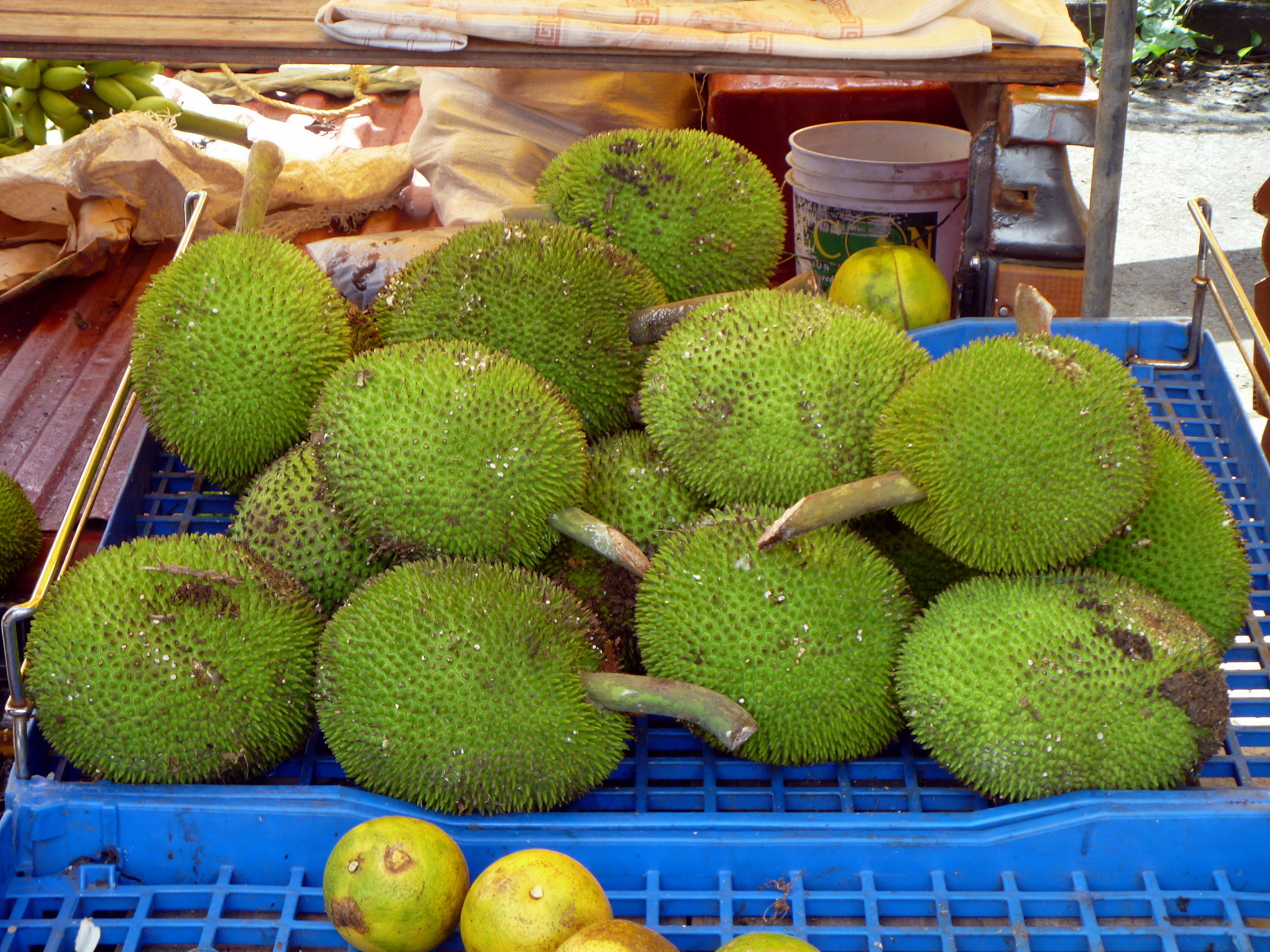 Artocarpus camansi (breadnut, called "chataigne" in Trinidad). Very popular when curried. A mainstay on the Hindu wedding menu. The dried seed within is also boiled and eaten.